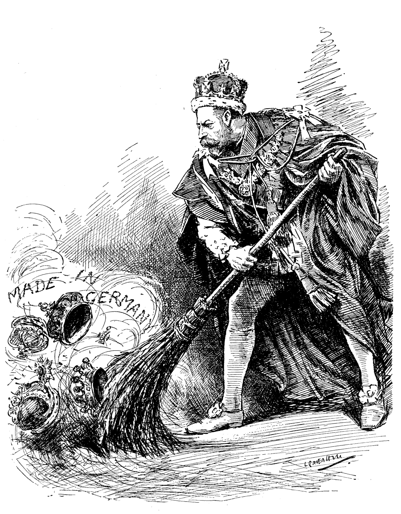 George V of the United Kingdom sweeping away the german titles held by his family. The picture was made after the king decided to abolish all german titles and rename his house from Saxe-Coburg-Gotha to Windsor.